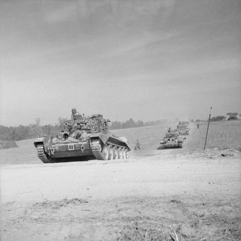 The British Army in the Normandy Campaign 1944 Cromwell tanks of 2nd (Armoured Reconnaissance) Battalion, Welsh Guards, moving up towards Escoville during Operation 'Goodwood', 18 July 1944.